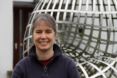 Description at MFO: On the Photo: Kutyniok, Gitta — Occasion:New Discretization Methods for the Numerical Approximation of PDEs — Annotation: Organizer — Location: Oberwolfach — Author: Ruf, Tatjana (photos provided by Ruf, Tatjana) — Source: MFO — Year: 2015 — Copyright: MFO — Photo ID: 19565